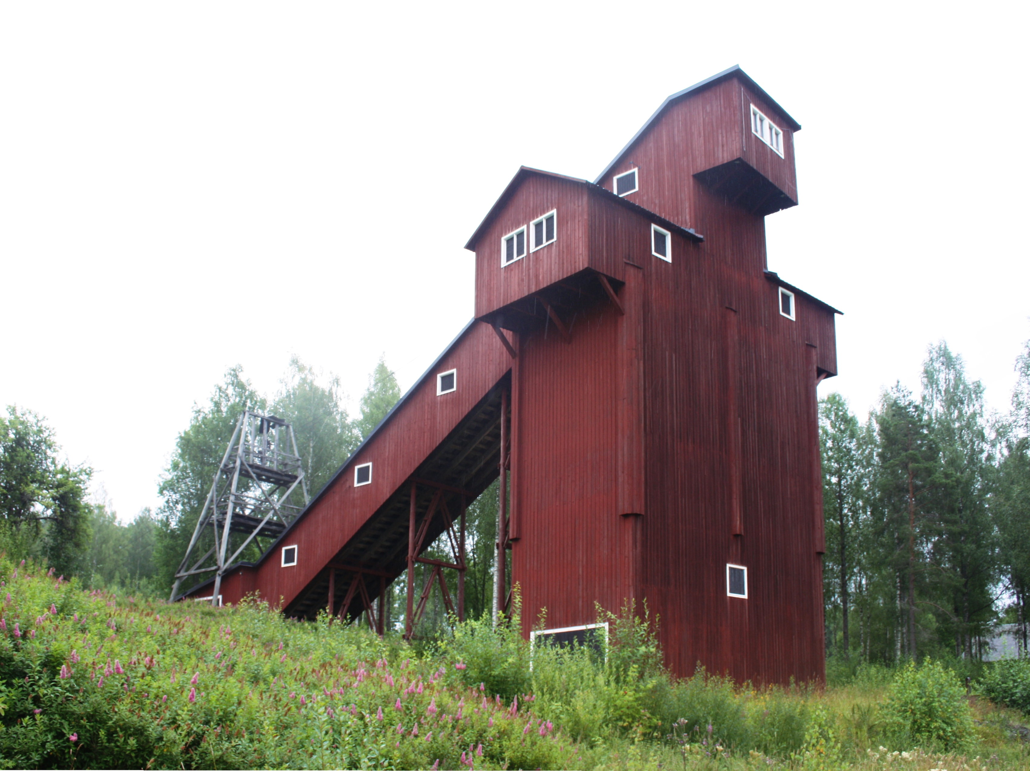 Nordmark, Filipstad municipality, Sweden. Headframe of the Nygruve Shaft, built in 1945.